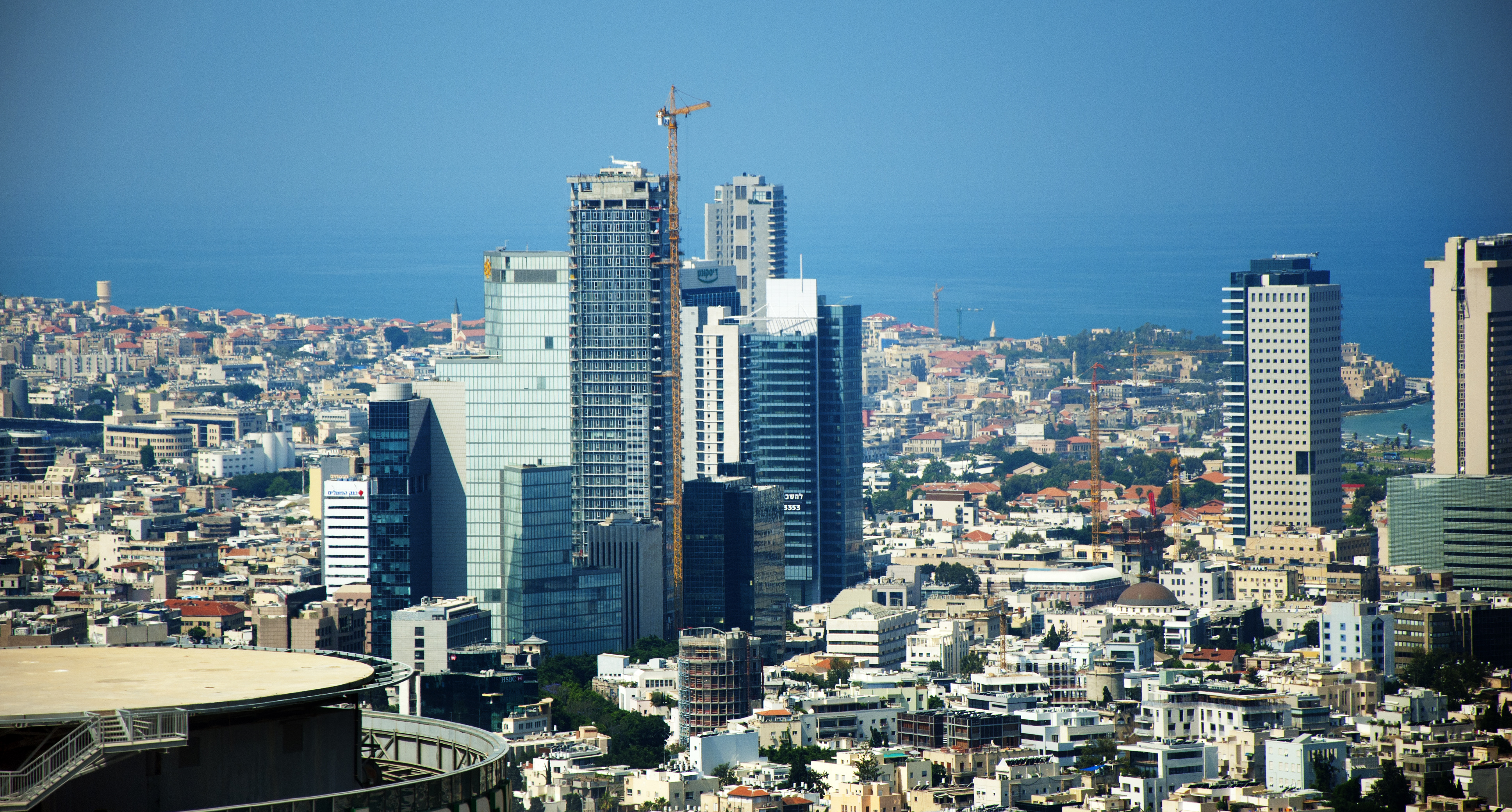 Agglomeration of towers on Rothschild Boulevard, Tel Aviv, Israel.